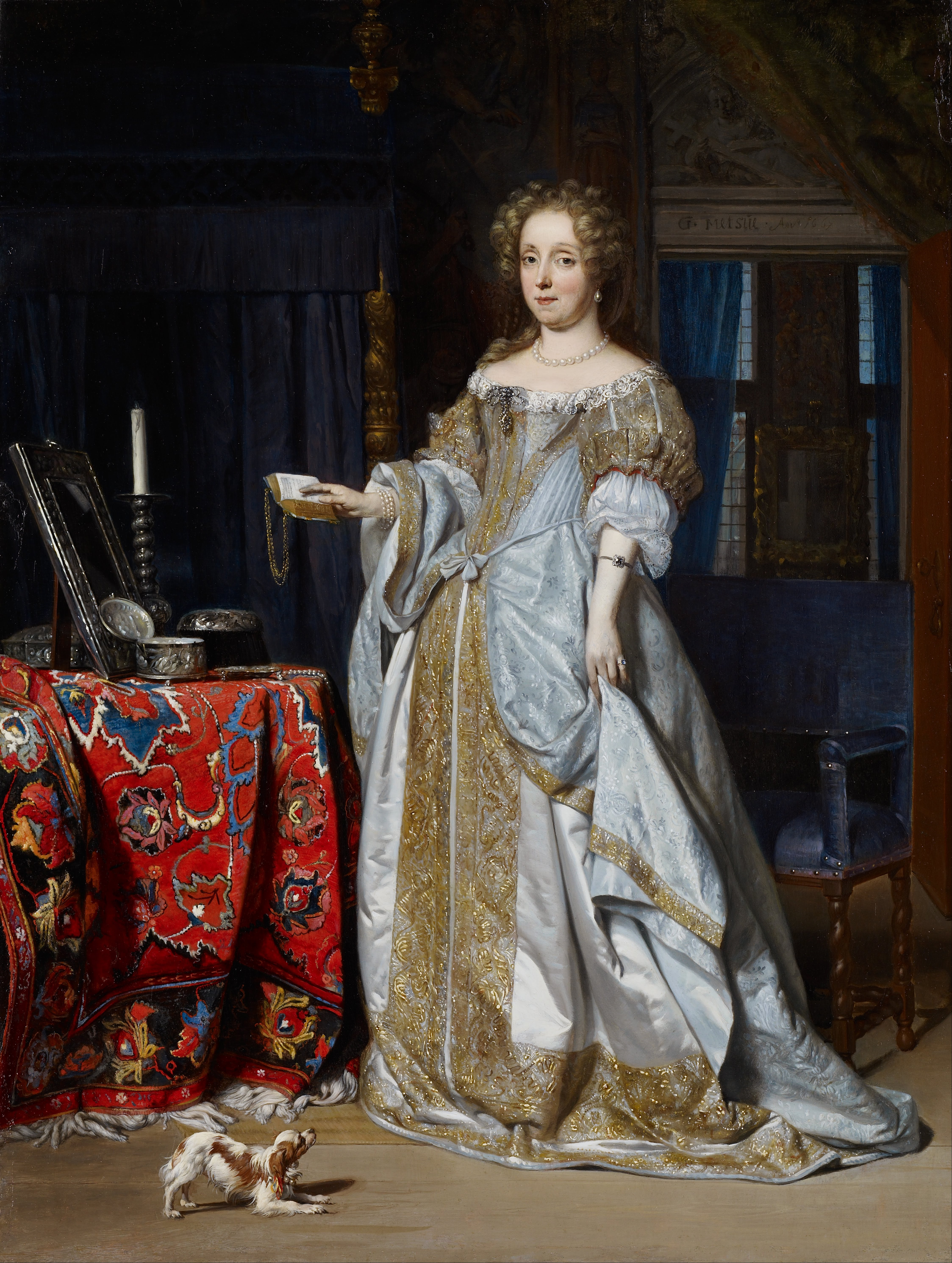 Lucia Wijbrants was the second wife of Amsterdam merchant Jan Jacobszoon Hinlopen .